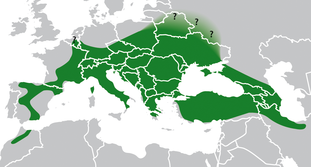 Distribution map of Sempervivum